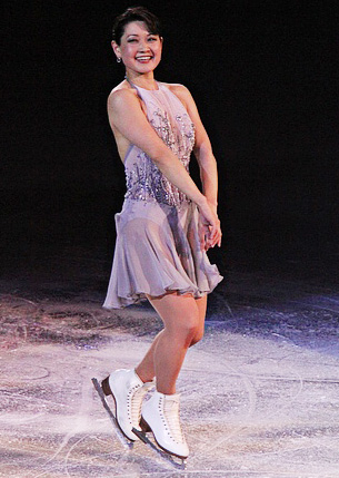 Stars on Ice in Manchester 2010.